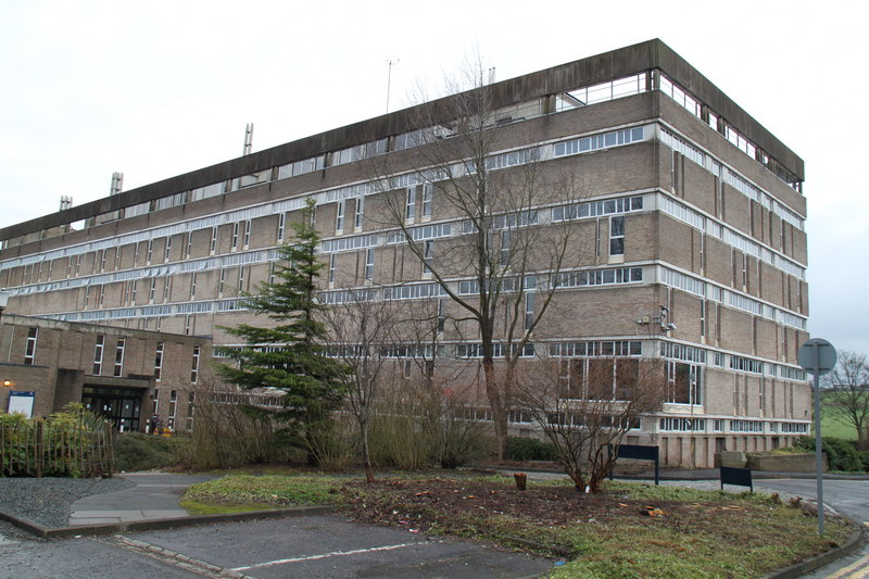 James Clerk Maxwell Building "JCMB" in the University of Edinburgh Kings Buildings